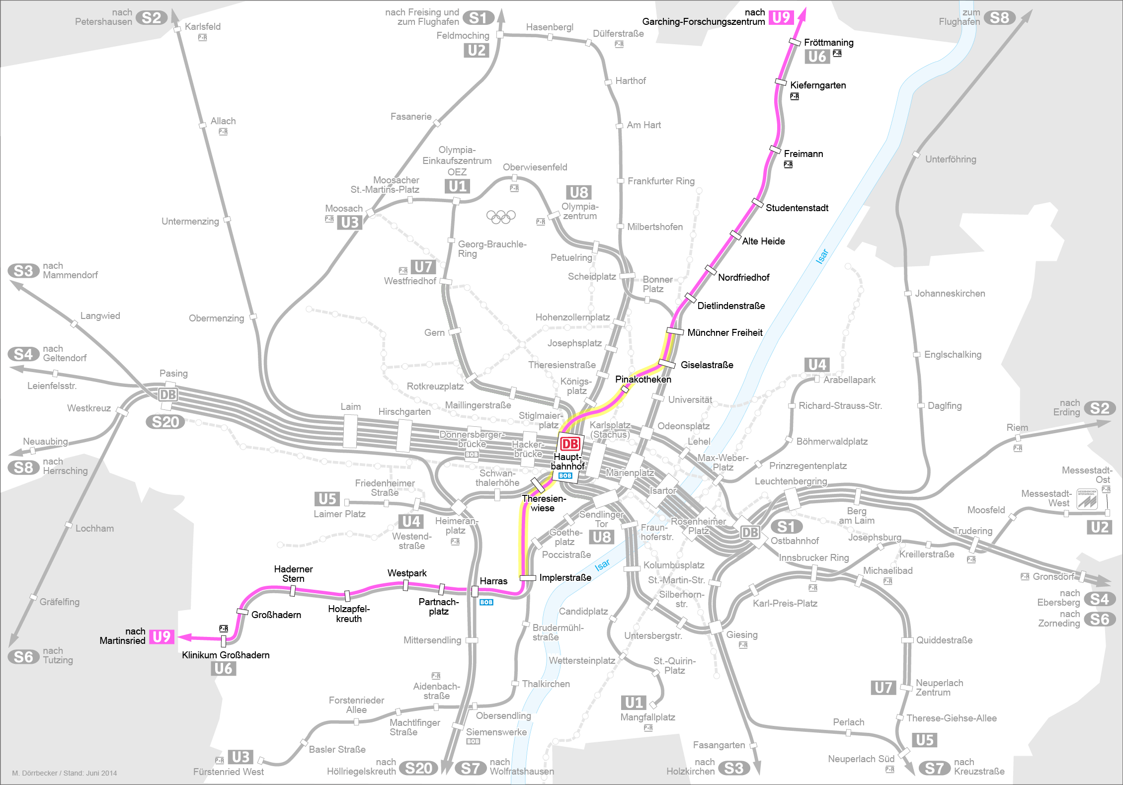 Map of the proposed U9 link of the Munich subway